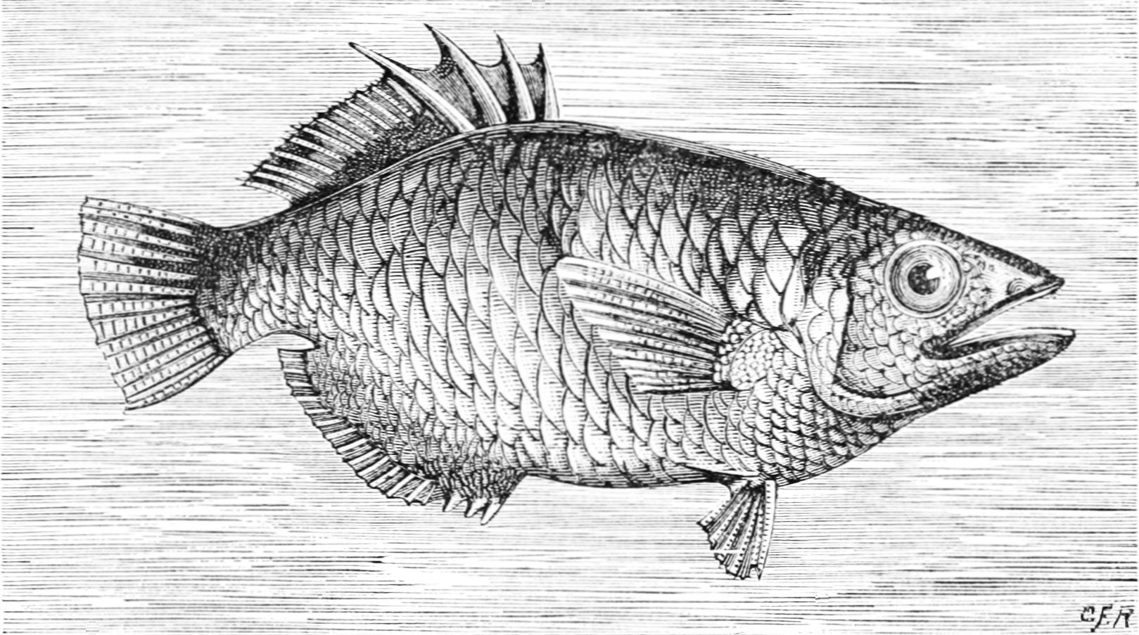 Archer fish